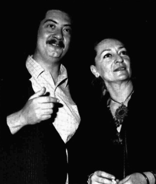 Italian actors Mario Valgoi and Gabriella Giacobbe at the rehearsal of a radio drama